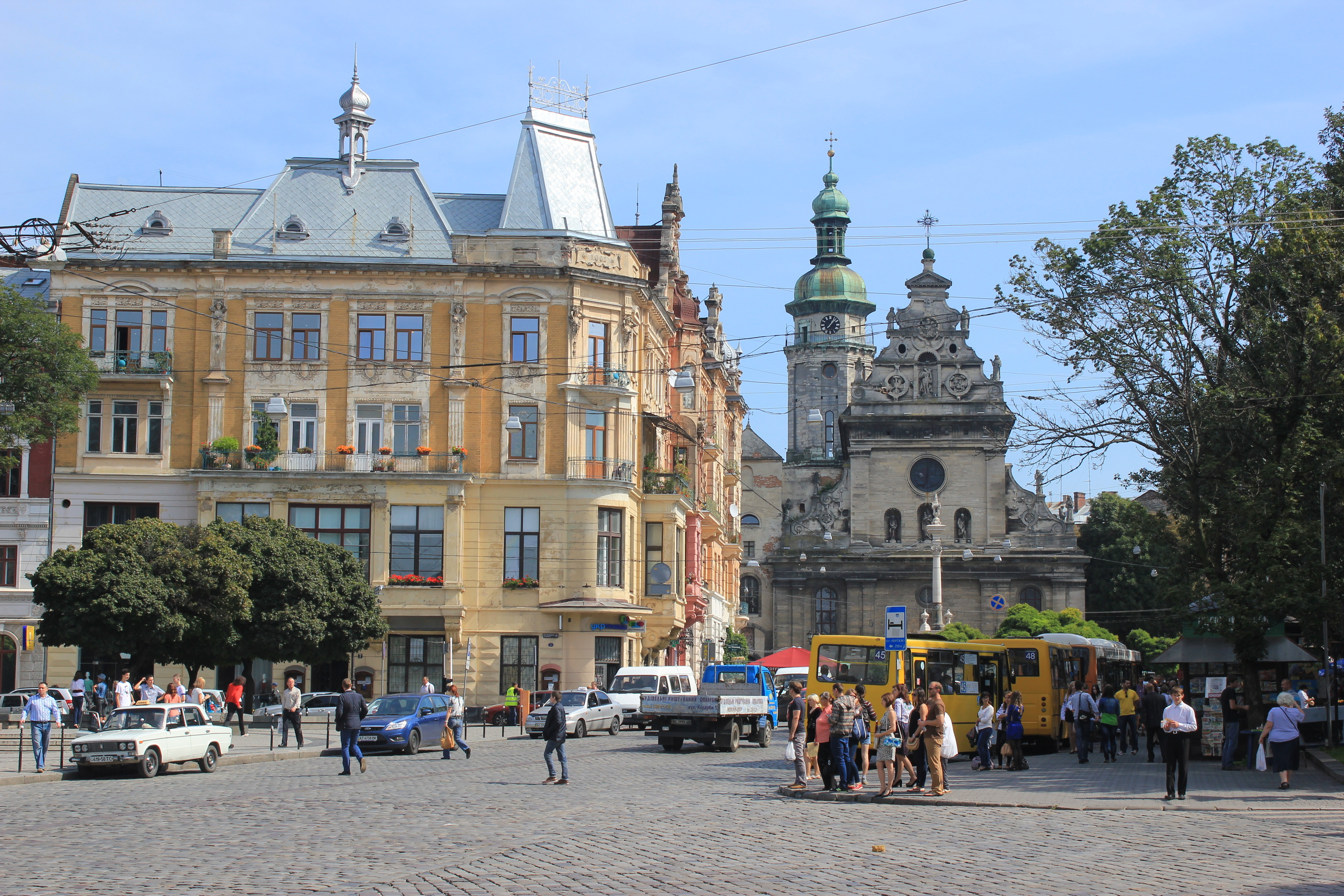 Lviv, Galician square.